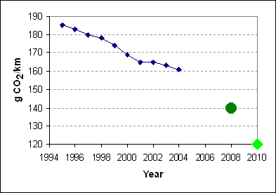 Overview of progress on the ACEA agreements between the European automobile manufacturers to limit CO2 emissions towards the 2008 target of 140 g CO2 per kilometer (marked in green) and towards the European Commission's ultimate target of 120 gram/km for 2010 Based on figures from the European Commission's "Annual report for the monitoring year 2004", available at